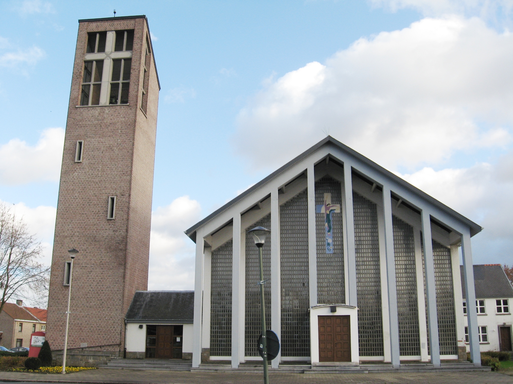 Church of Saint Joseph in Lanaken (Smeermaas), Limburg, Belgium